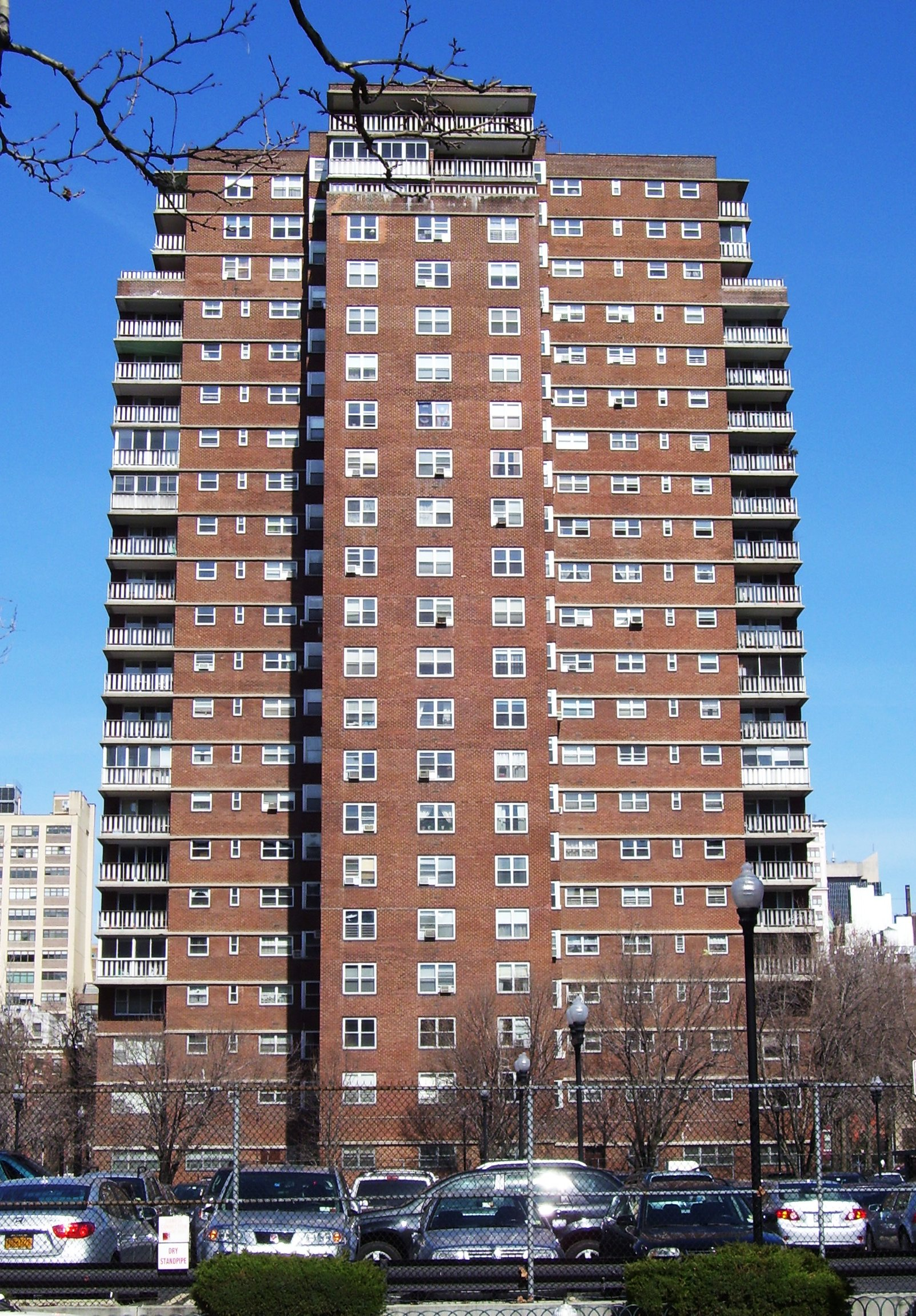 A building of the Penn South housing cooperative development on West 27th Street as seen from the south, on West 26th Street, in the Chelsea neighborhood of Manhattan, New York City.